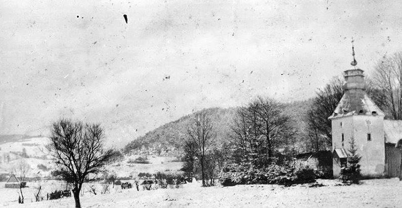 Church of the Nativity of the Virgin in the village Barwinek (1821, photo of the late 19th century, destroyed, probably, during the Second World War in 1944).